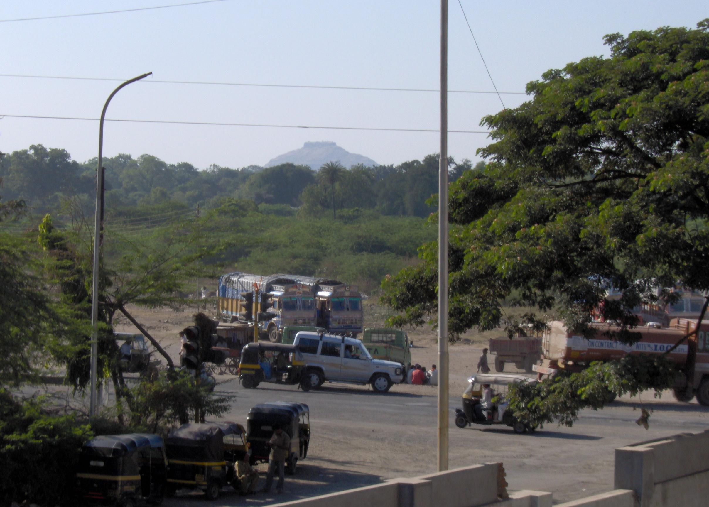 A view from the town of Aurangabad in western Maharashtra, India – I believe the structure in the distance is the fortress of Daulatabad. QuartierLatin1968 04:34, 12 December 2005 (UTC)